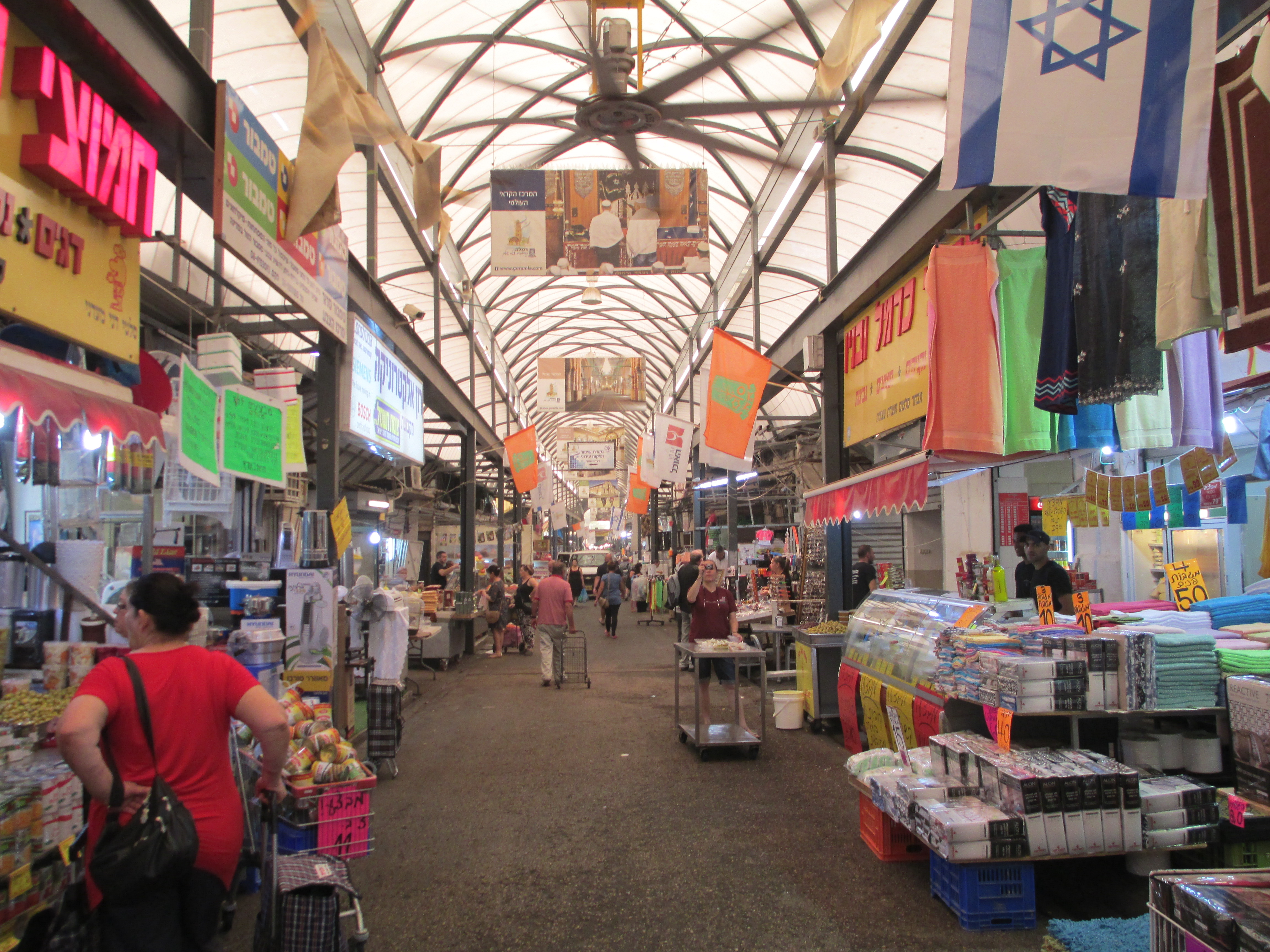 Ramla Market